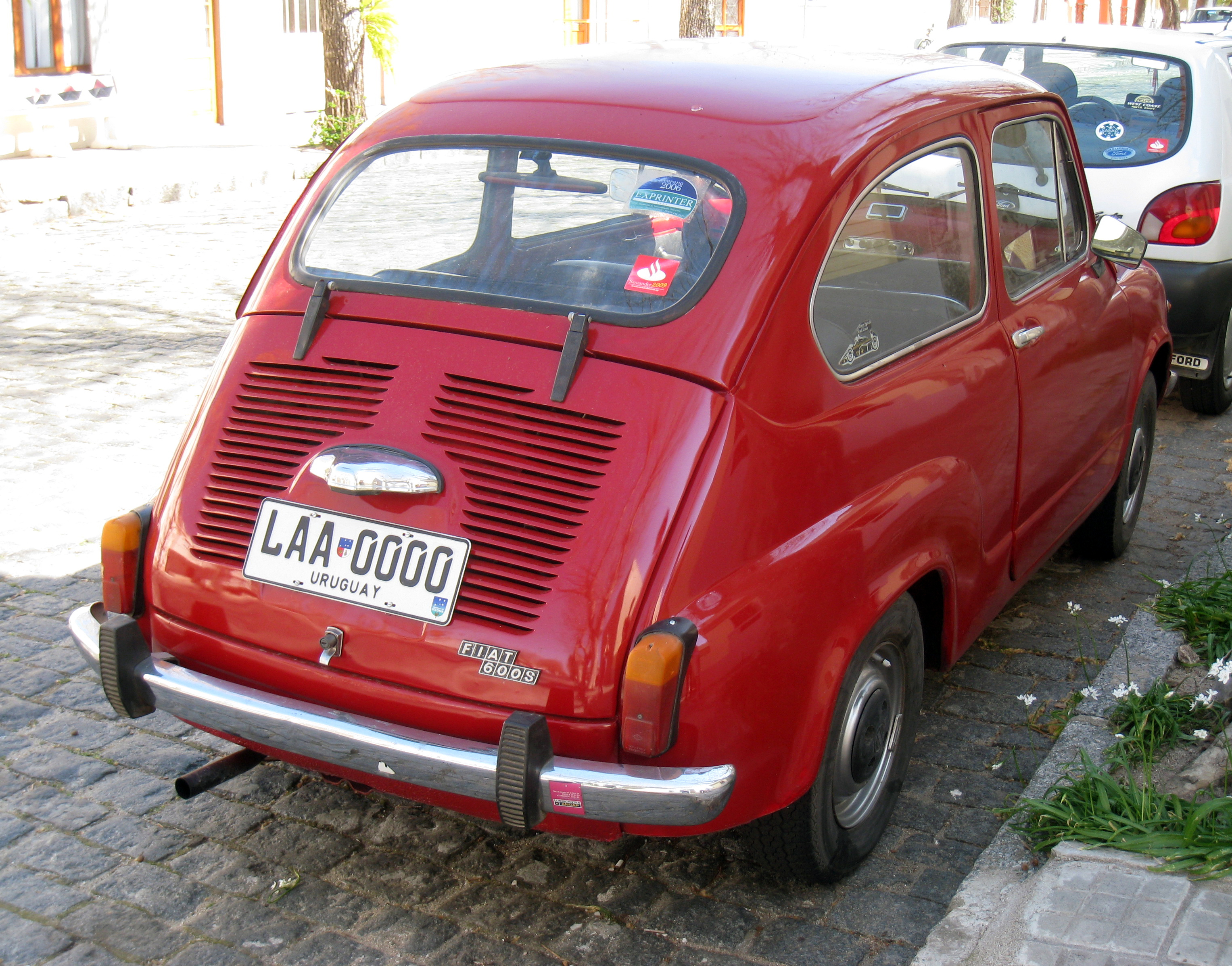 Fiat 600S in Uruguay. These later cars have a larger 843cc engine, rubber bumper overriders, more modern rims and a faux grille in black plastic. These cars were assembled in Uruguay, presumably this is one of them